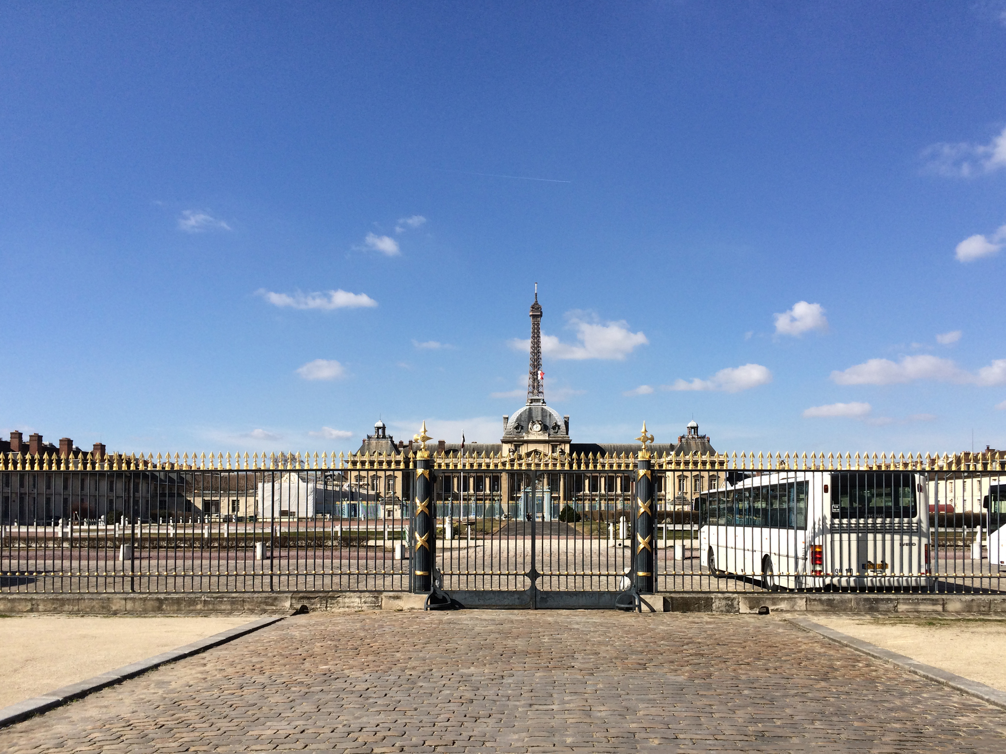 École Militaire with Eiffel Tower in the background, photographed 05 March 2015.